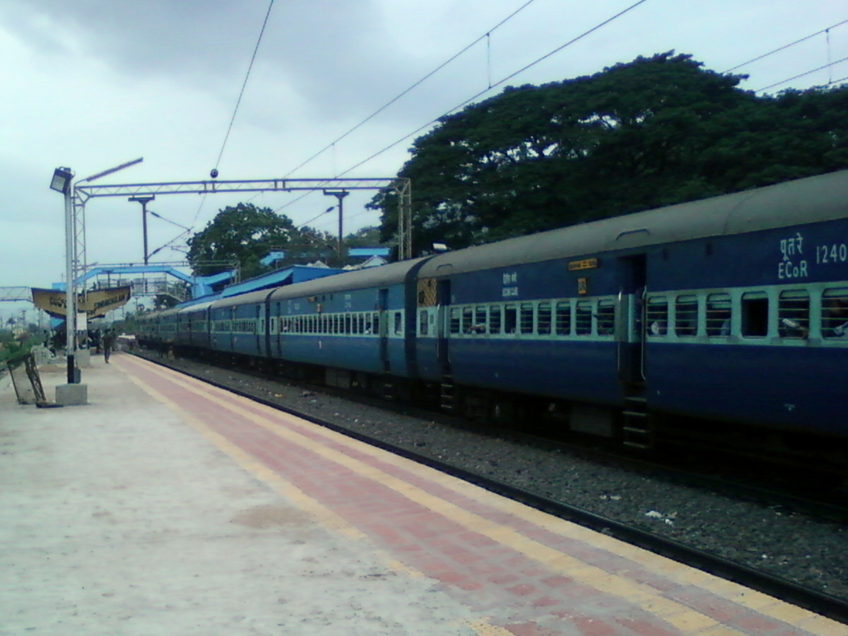 Durg-VSKP Passenger with WDM-3A loco at Simhachalam railway station